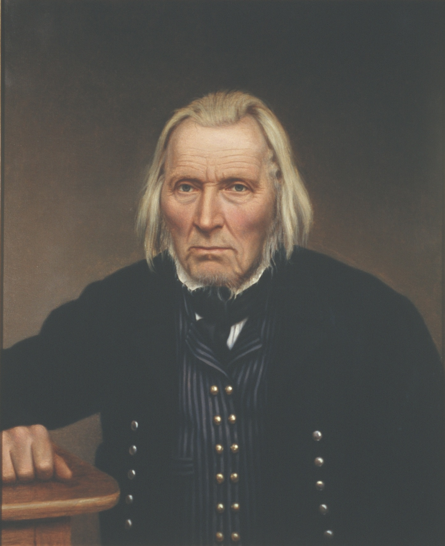 After ambrotype by A. Brodersen from 1860-1862.